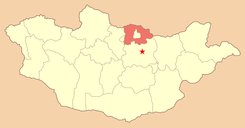 Map of Mongolia with Selenge Aimag highlighted.